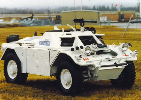 UN White Ferret of the Ontario Regiment (RCAC) Museum, Oshawa, c.1997